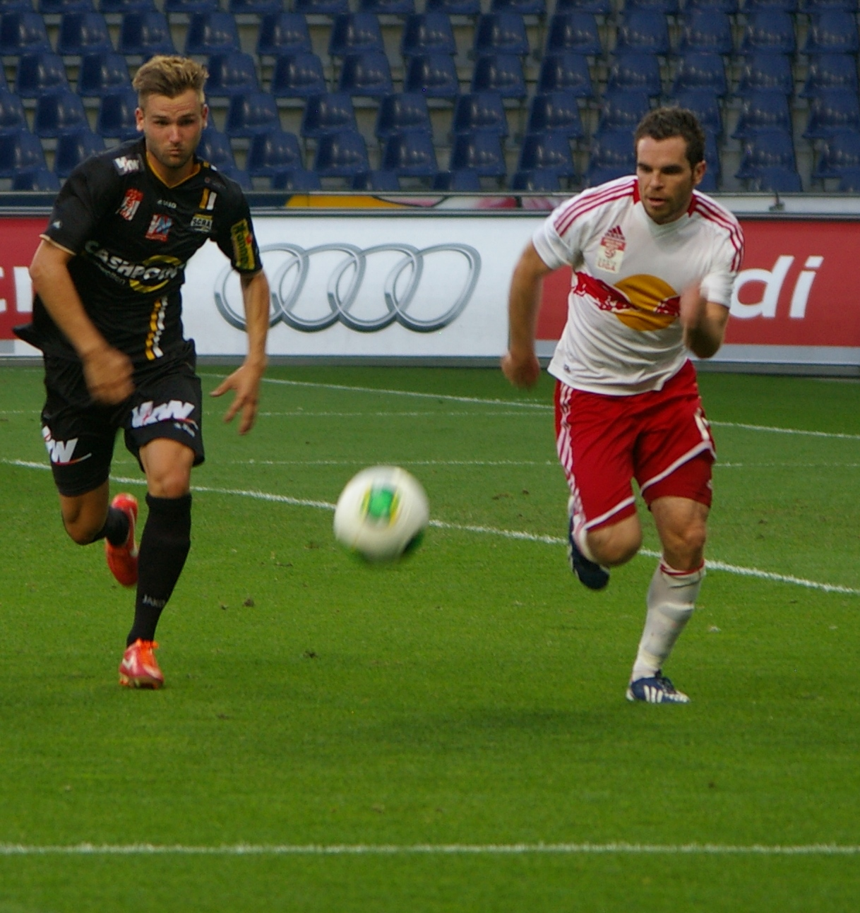 league match